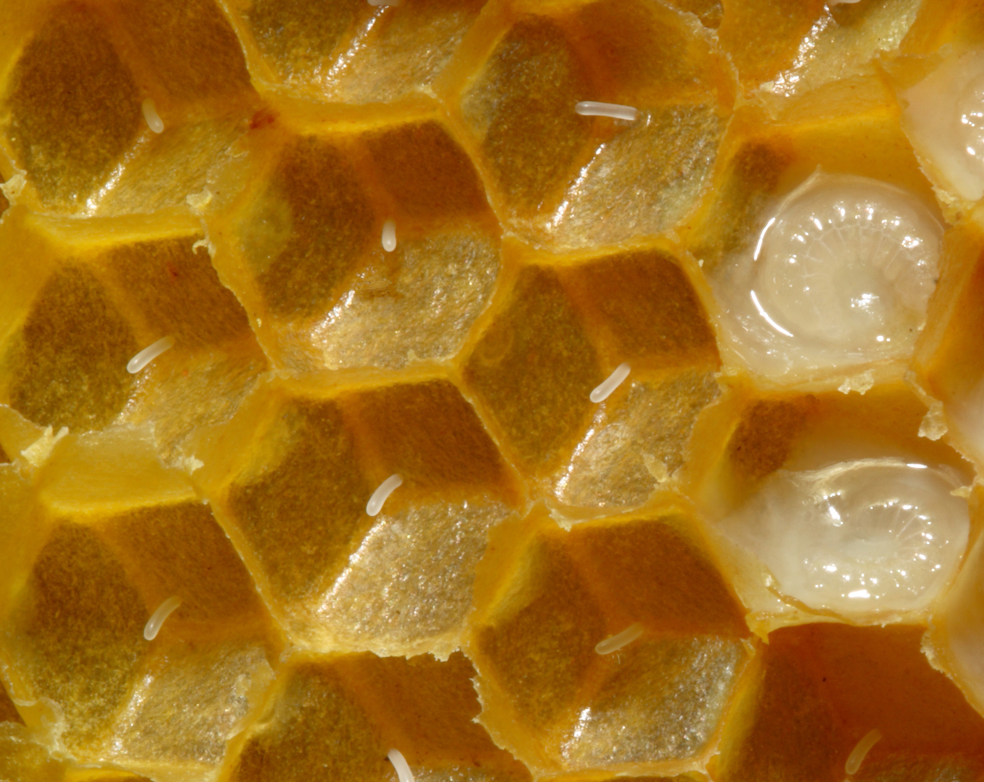 Honeycomb of honey bees with eggs and larvae. The walls of the cells have been removed. The larvae (drones) are about 3 or 4 days old.